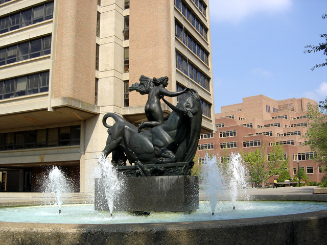 Europa on the Bull, a fountain sculpture by Carl Milles, is the central attraction of the campus of The University of Tennessee